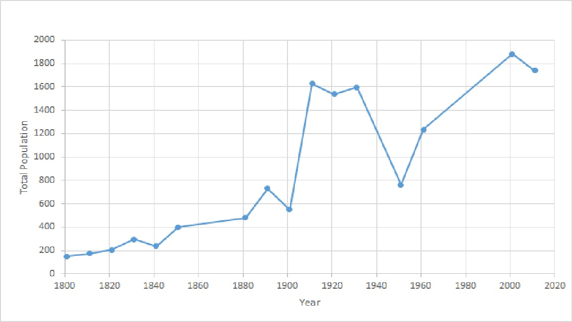 Total Population of Guston, Civil Parish, Kent as reported by the Census of Population from 1881 to 2011